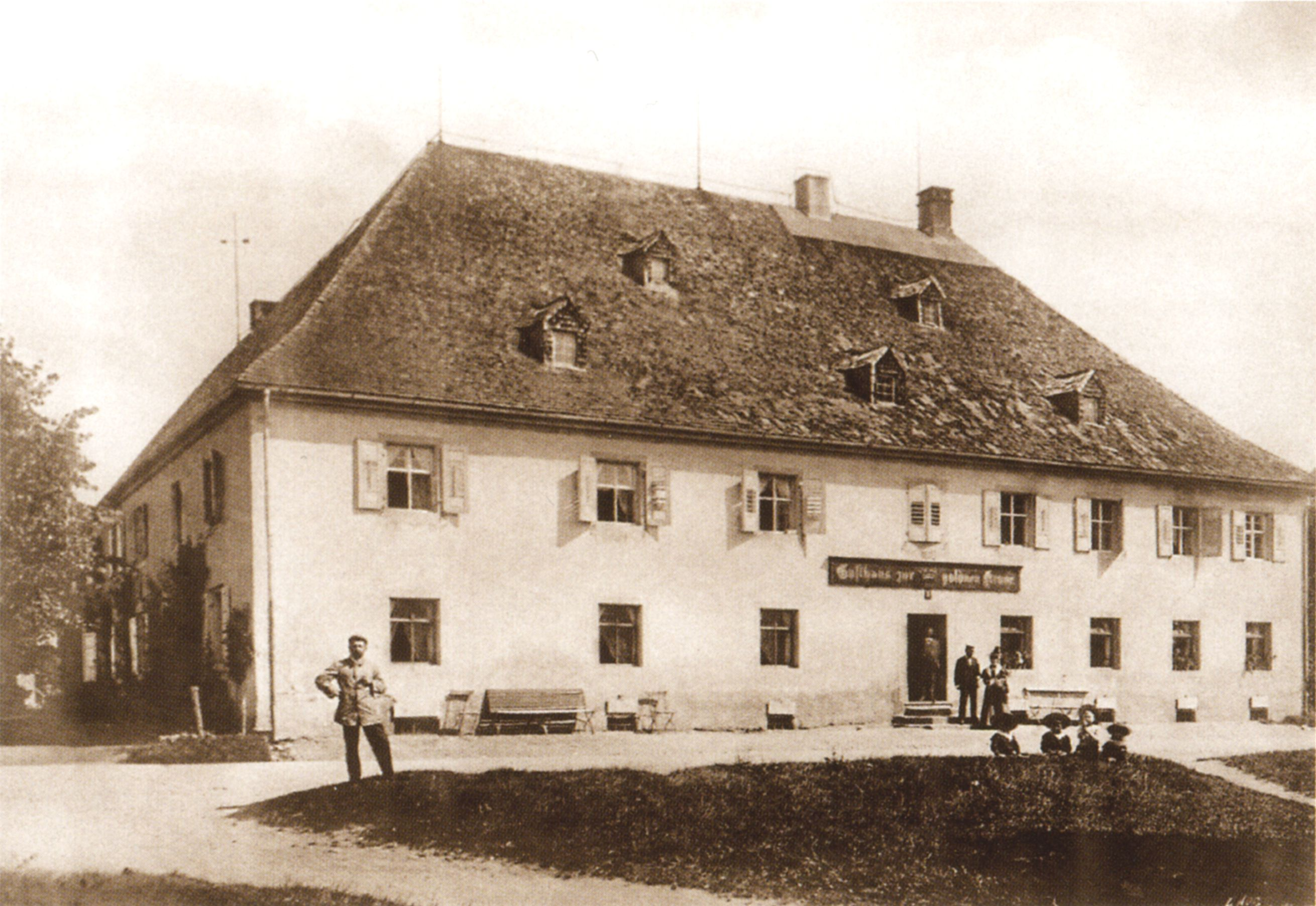 "Neues Haus" in St. Märgen in Germany as of 1904, now "Gasthaus Krone"